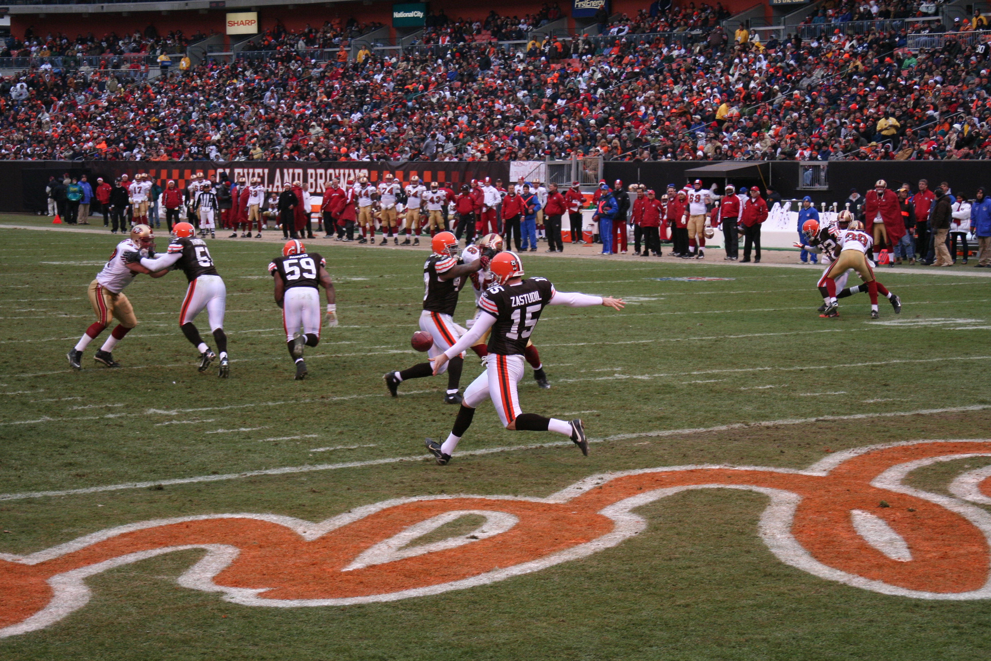 Dave Zastudil